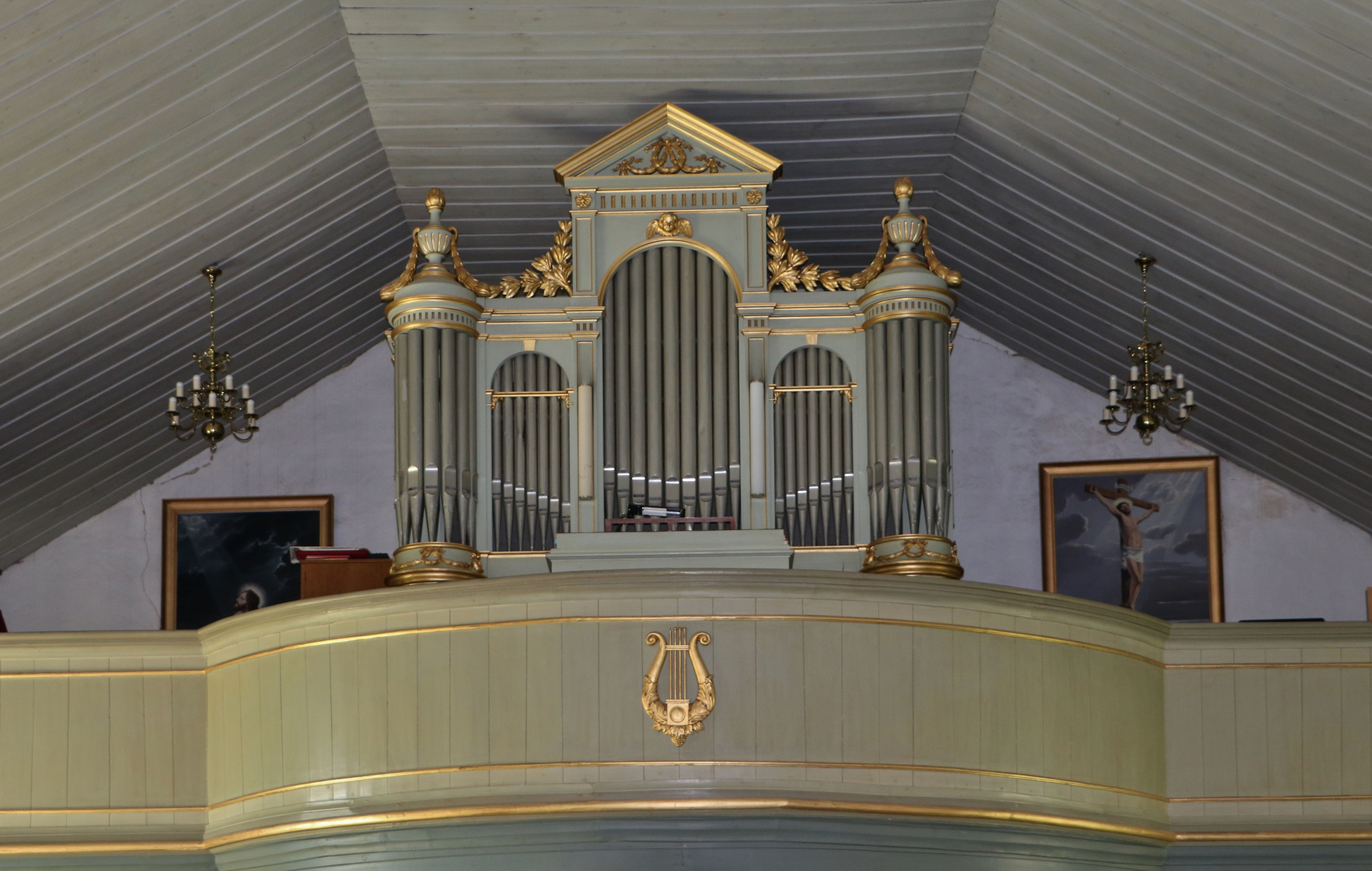 Södra Möckleby Church.Organ